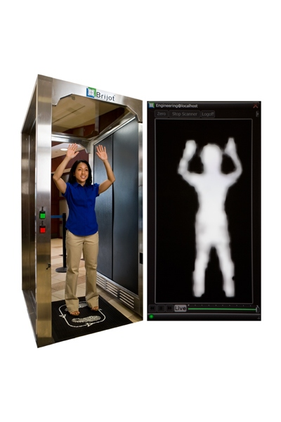 Brijot SafeScreen passive millimeter wave image and subject